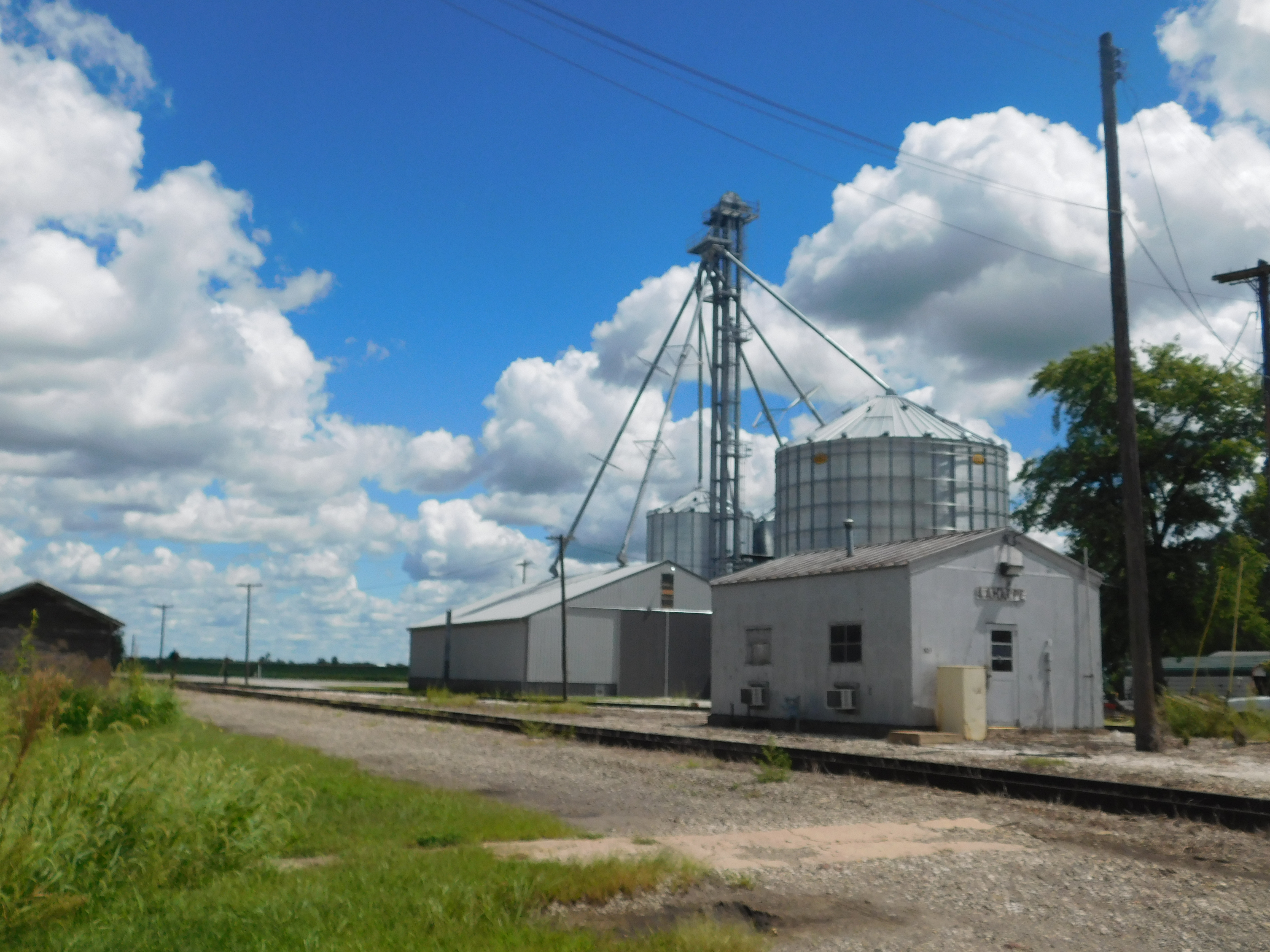 La Harpe, Illinois's former CB&Q station in August 2016.jpg